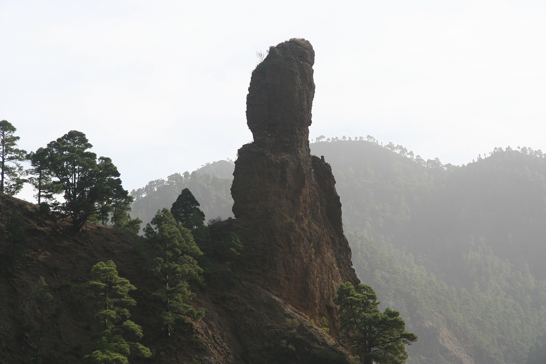 Idafe Rock in Caldera de Taburiente National Park (La Palma)